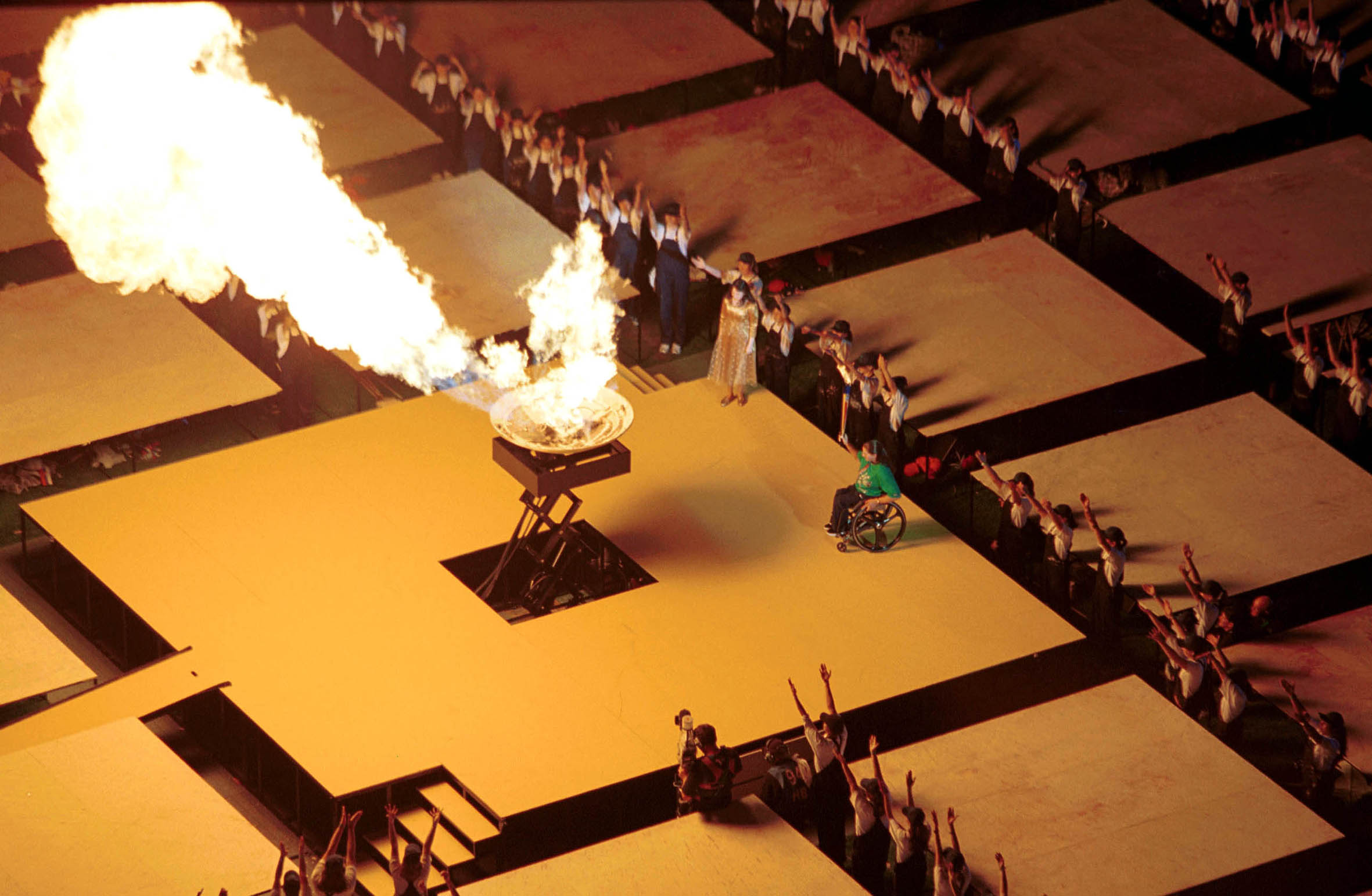 Australian athletics competitor Louise Sauvage lights the cauldron with the Paralympic Flame at the finish of the torch relay, 2000 Sydney Paralympic Games Opening Ceremony